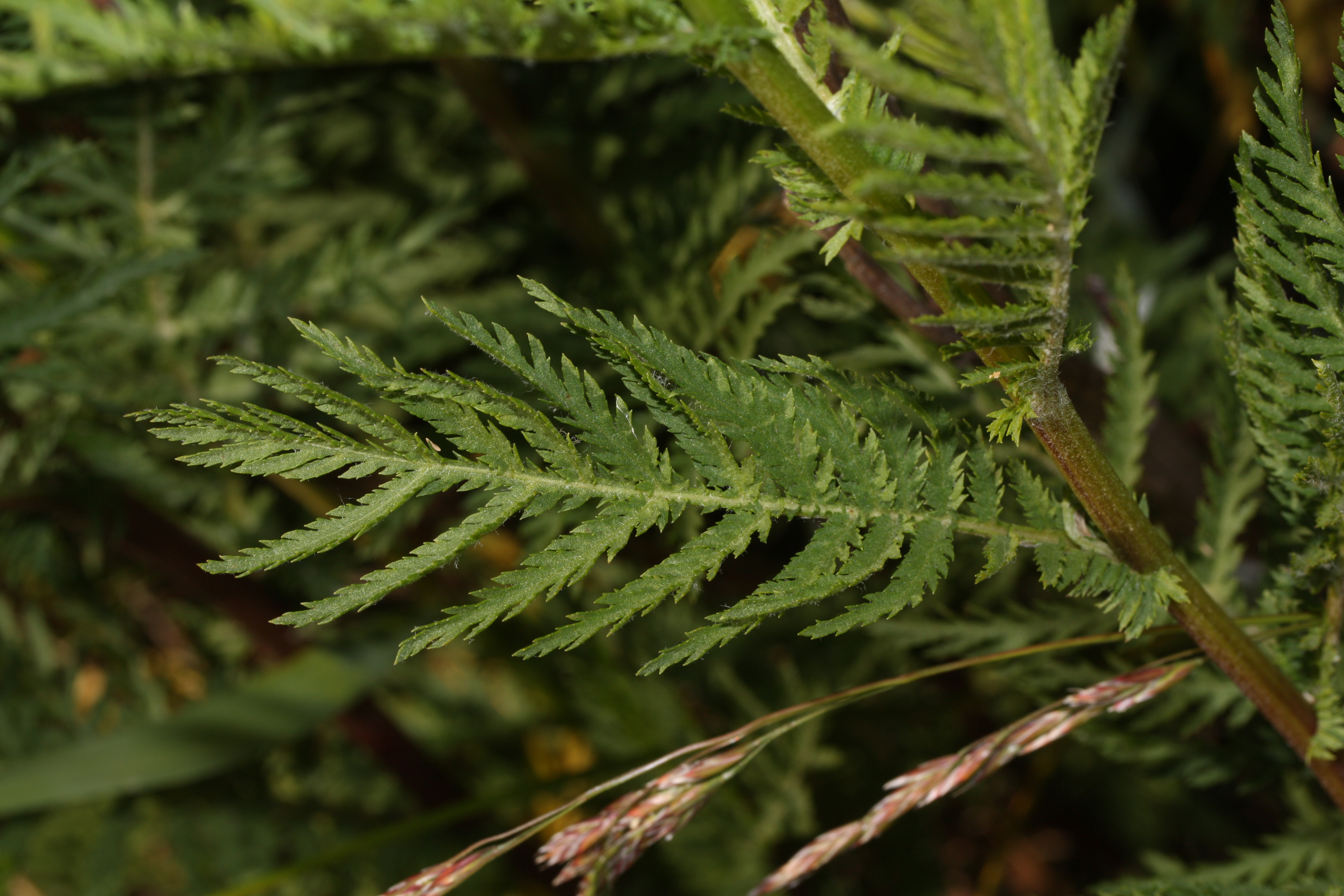 Common Tansy